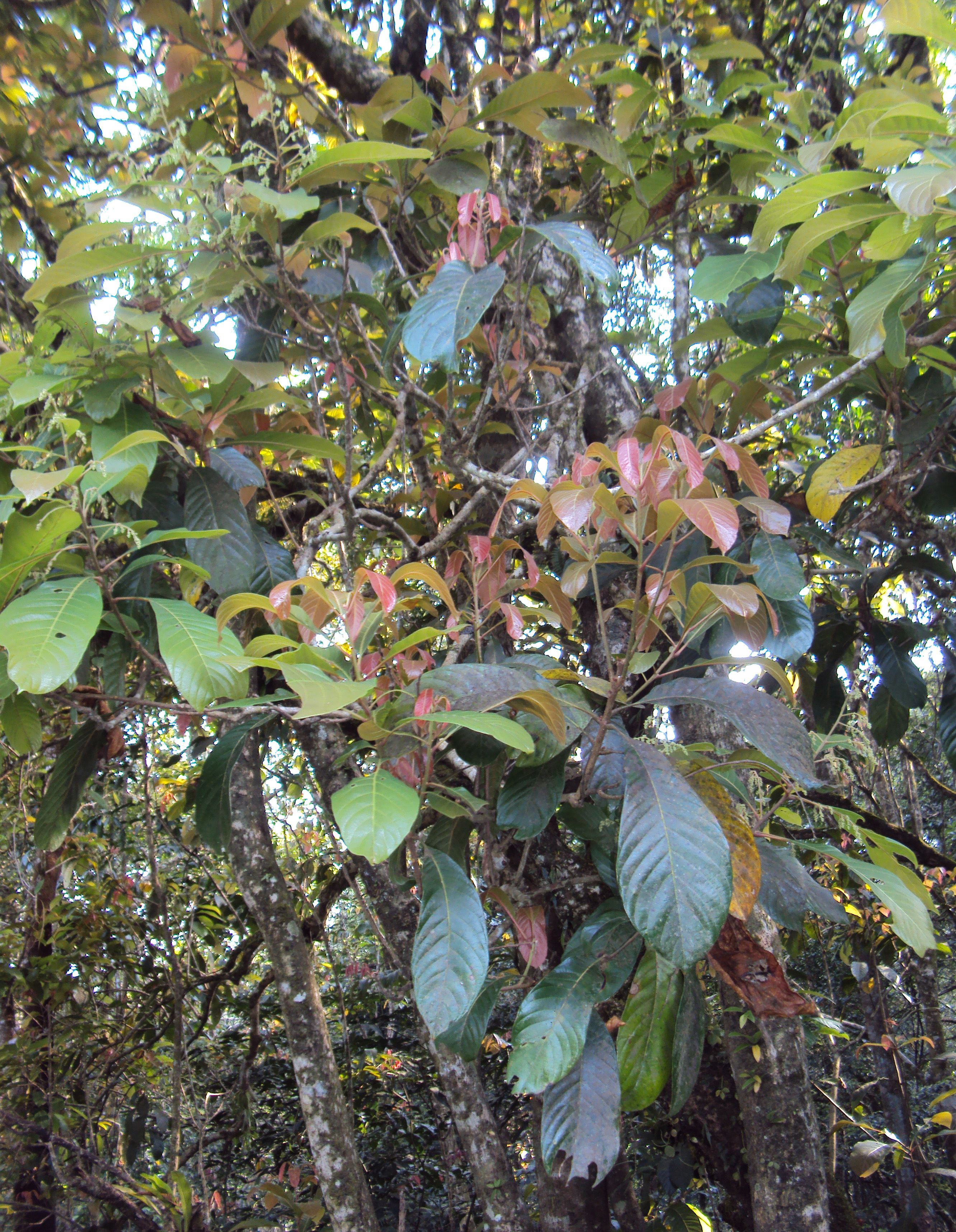 Elaeocarpus serratus